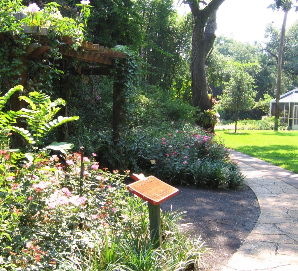 Photo shows part of outdoor butterfly gardens to left, and stone path leading to "Butterfly Encounter" shelter on the right.